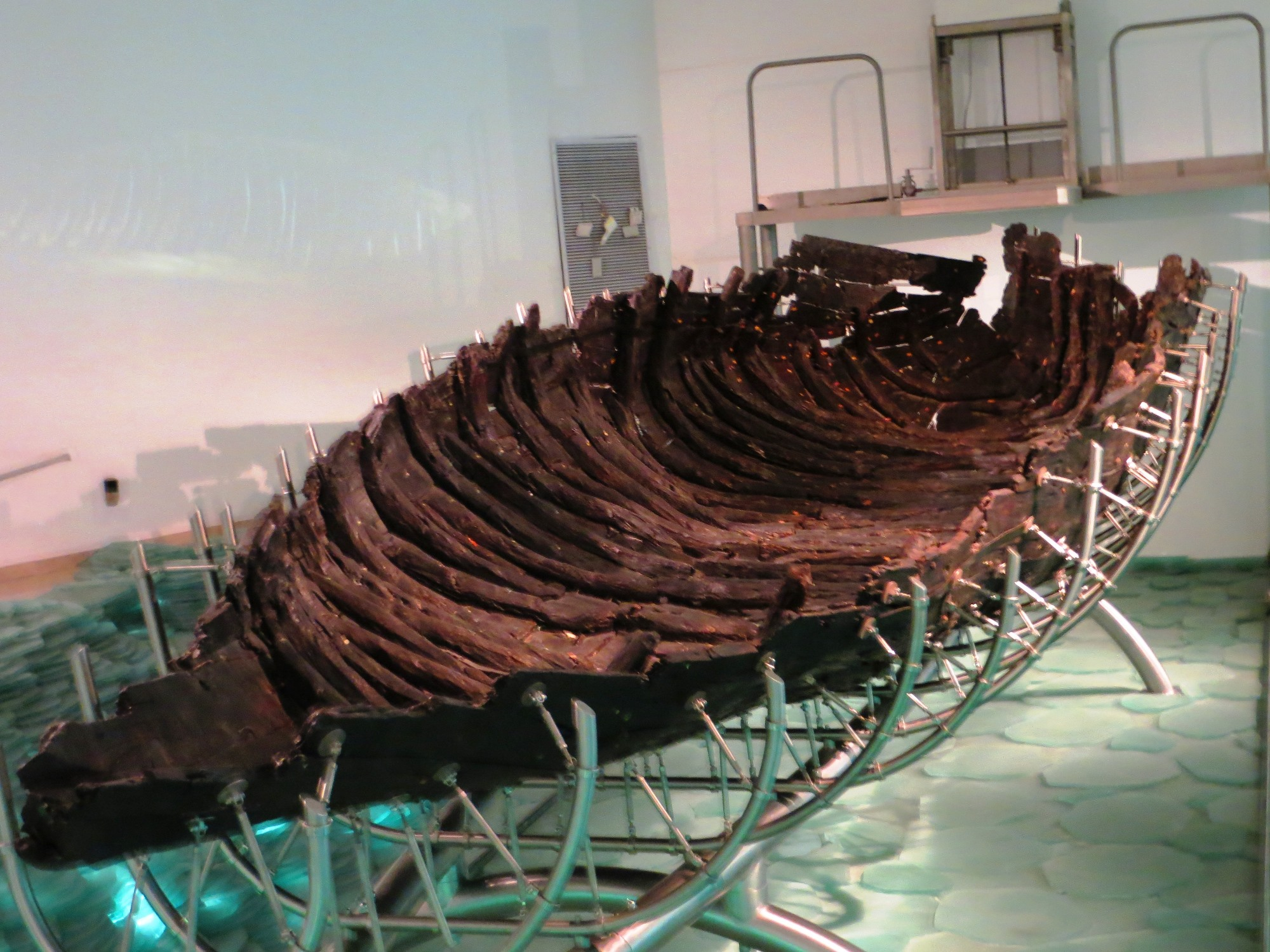 Settlements in Israel